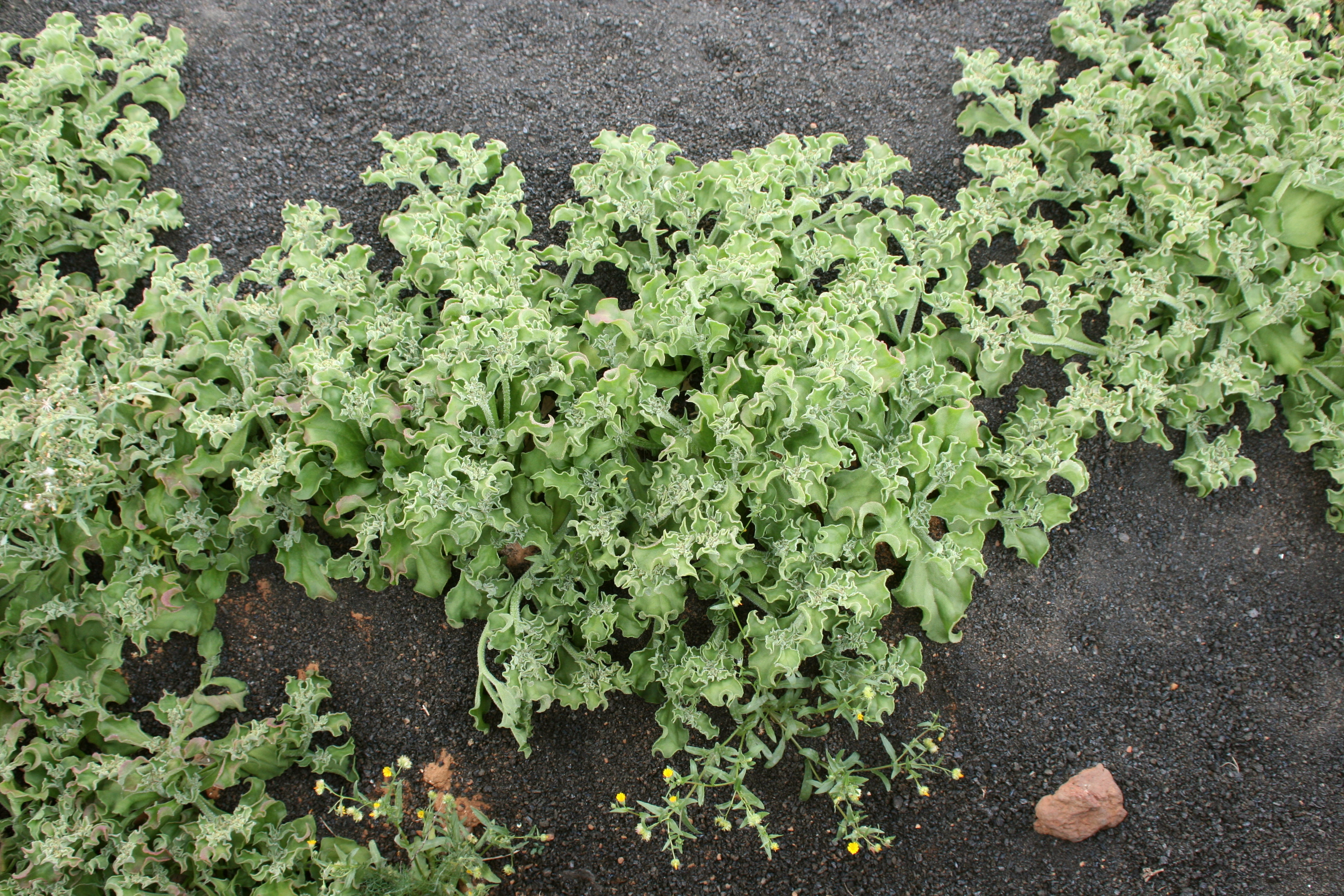 Mesembryanthemum crystallinum growing at LZ-30 in Yaiza, Lanzarote, Canary Islands